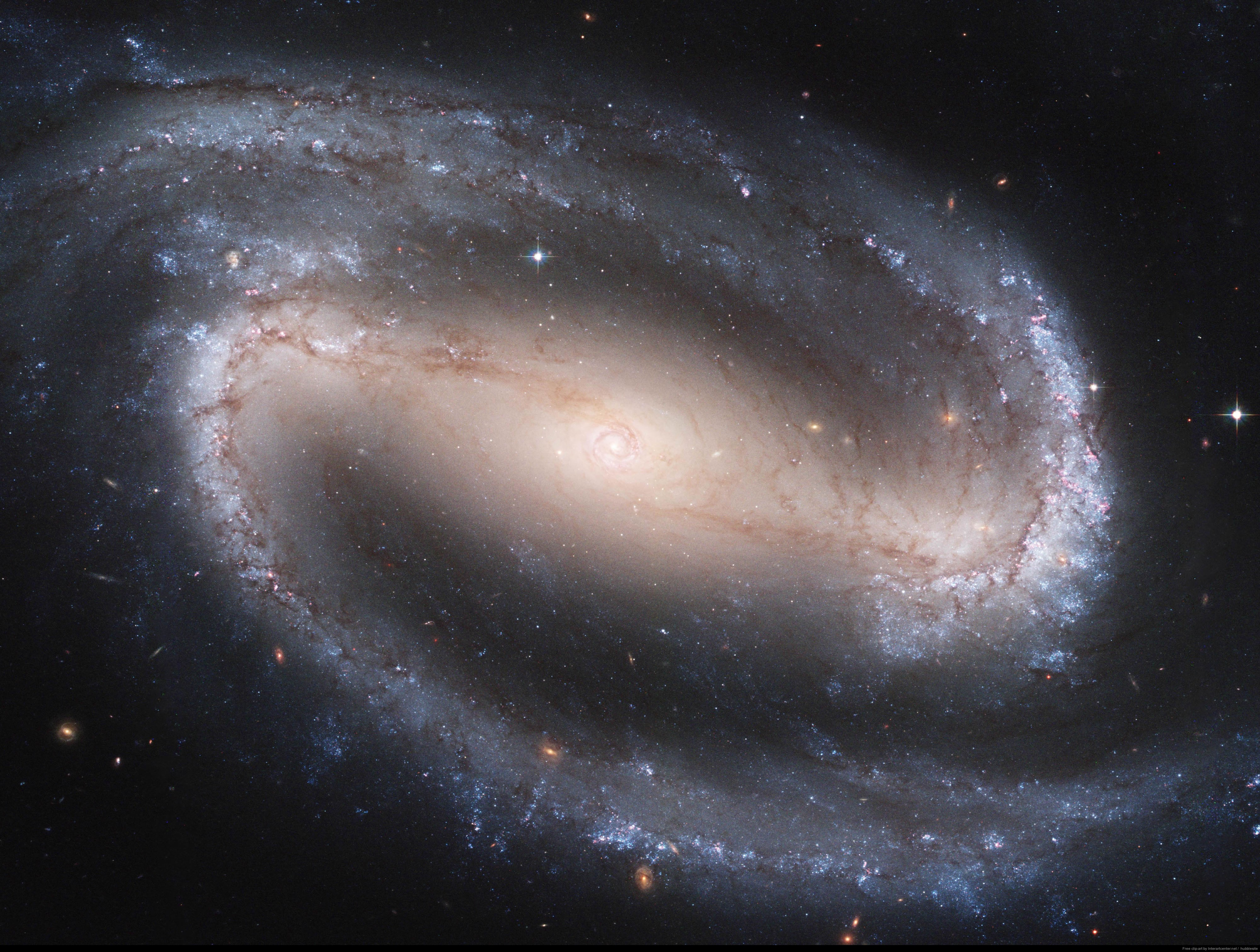 Spiral-galaxy-superstar-u from hubblesite